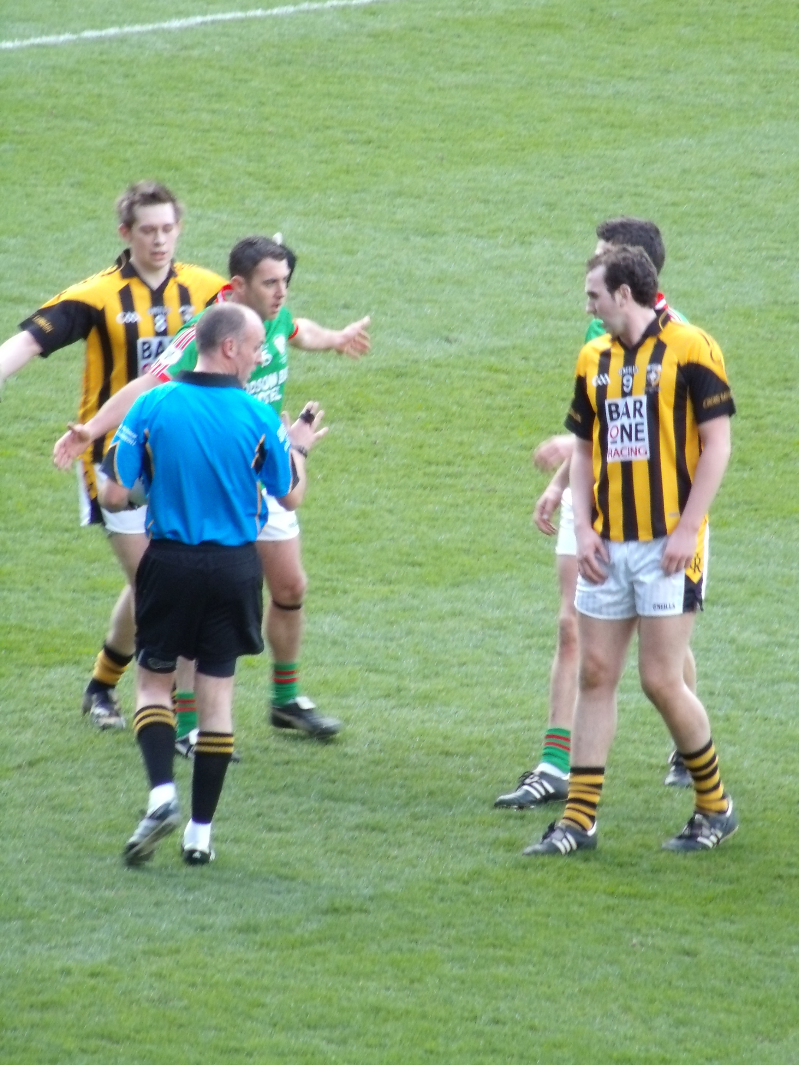 Referee (GAA)